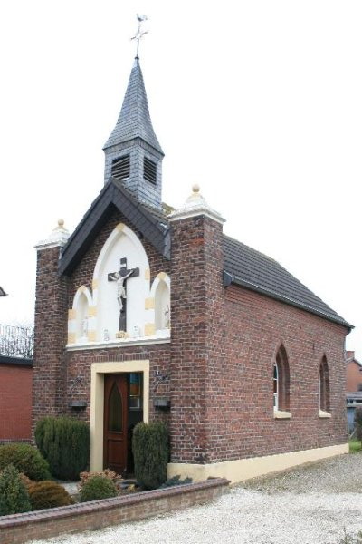 Cultural heritage monument No. 49 in Selfkant